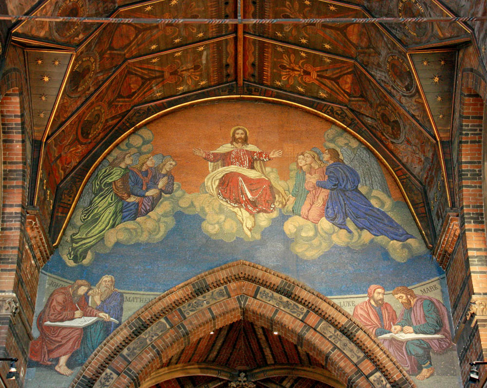 St James the Less, Vauxhall Bridge Road, SW1 - Chancel arch, near to Westminster, Great Britain.